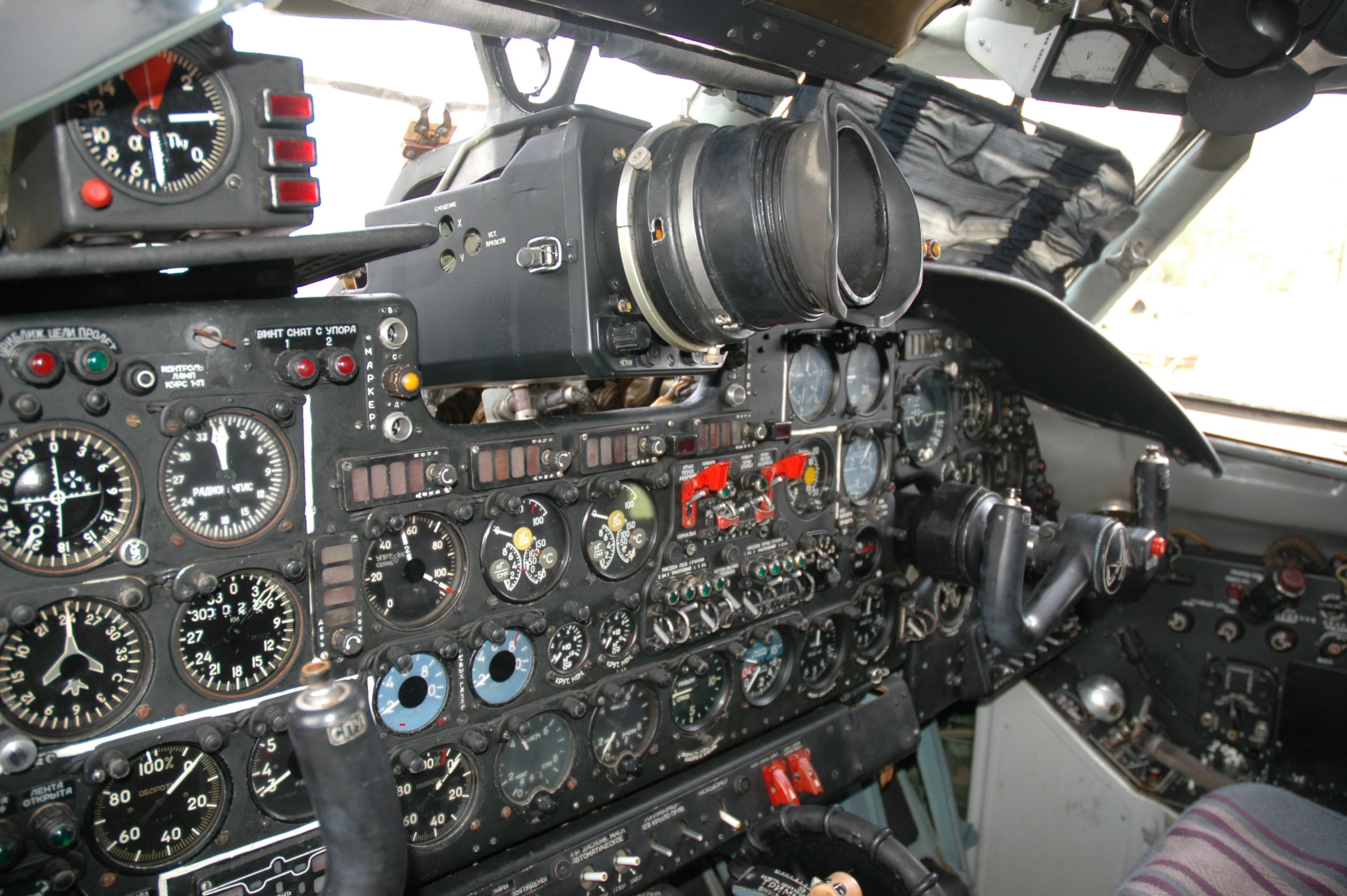 Cockpit of Antonov An-26 military transport aircraft